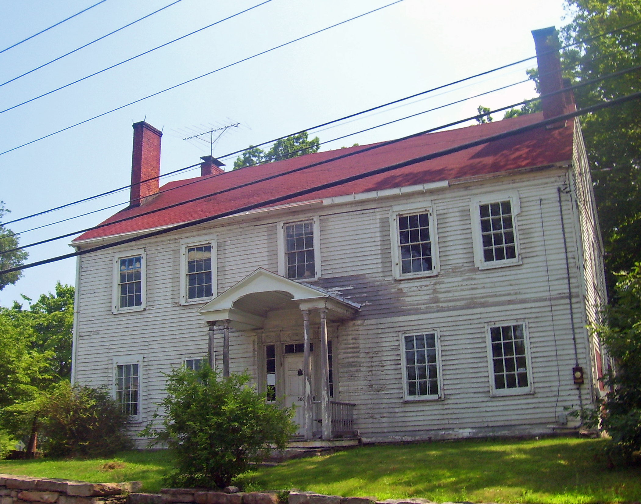 Goff's Inn, also McGarrah's Tavern, a contributing property to the Monroe, NY, USA, historic district.